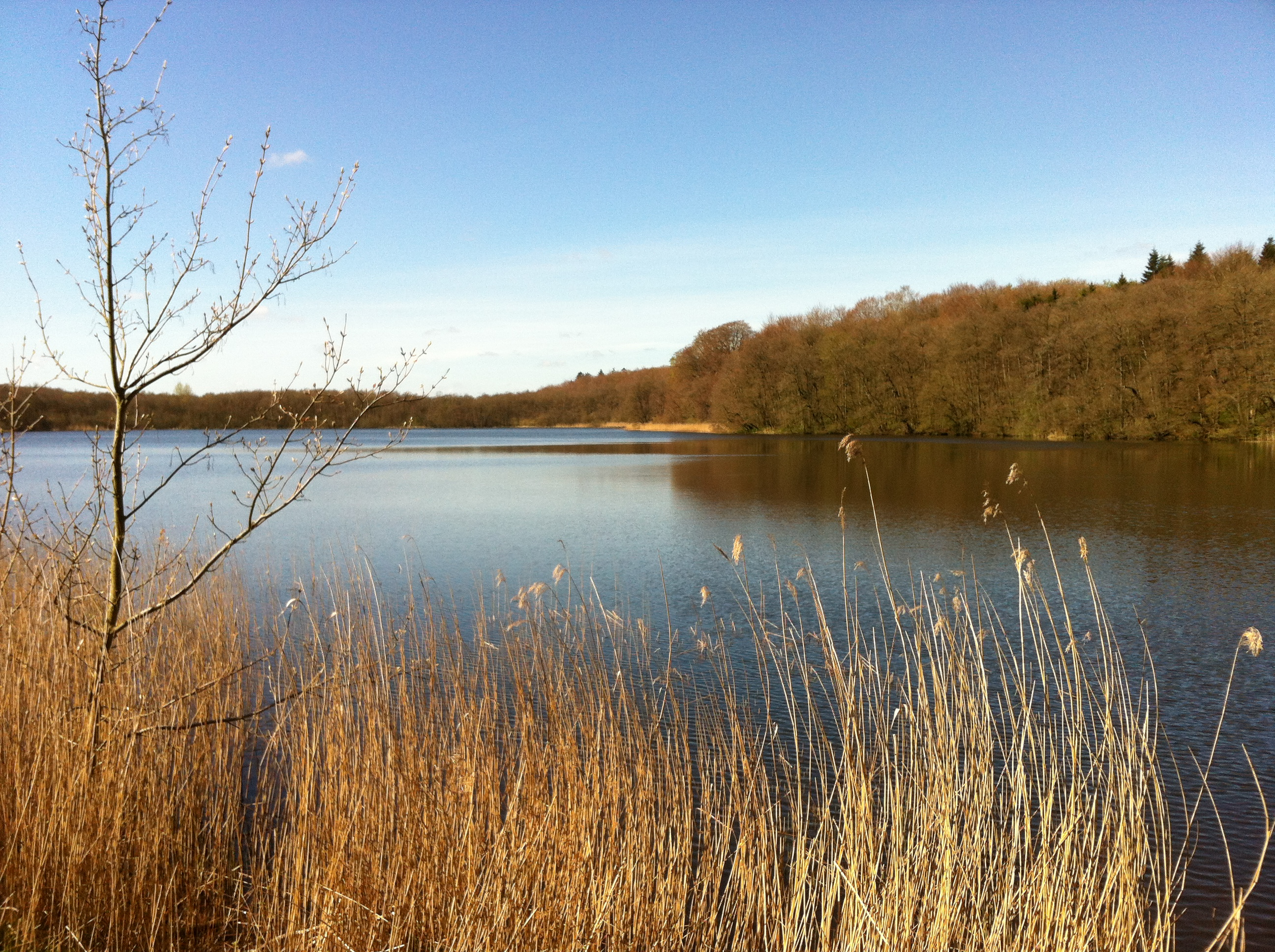 Lake Vallum, Djursland, Denmark in May 2016, seen from the east.